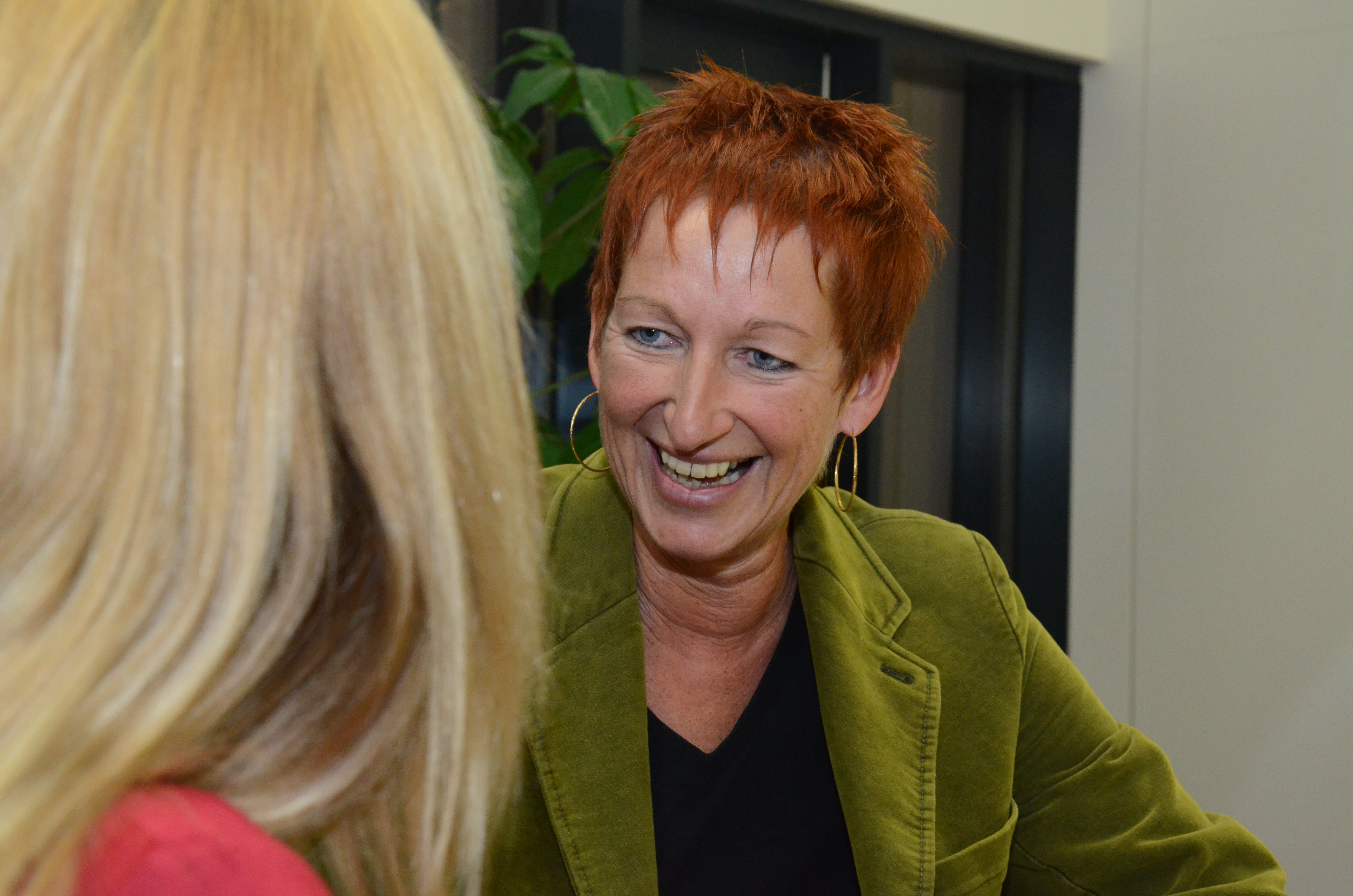 Austrian author Eva Rossmann